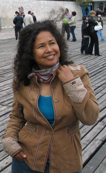 photo of Layla AbdelRahim